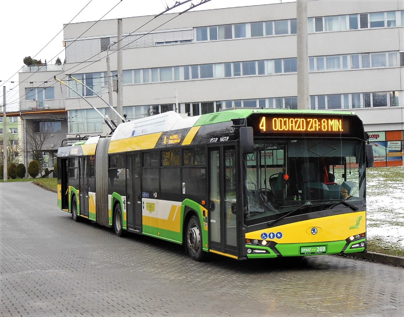 Trolleybus number 269 in Žilina, Slovakia.